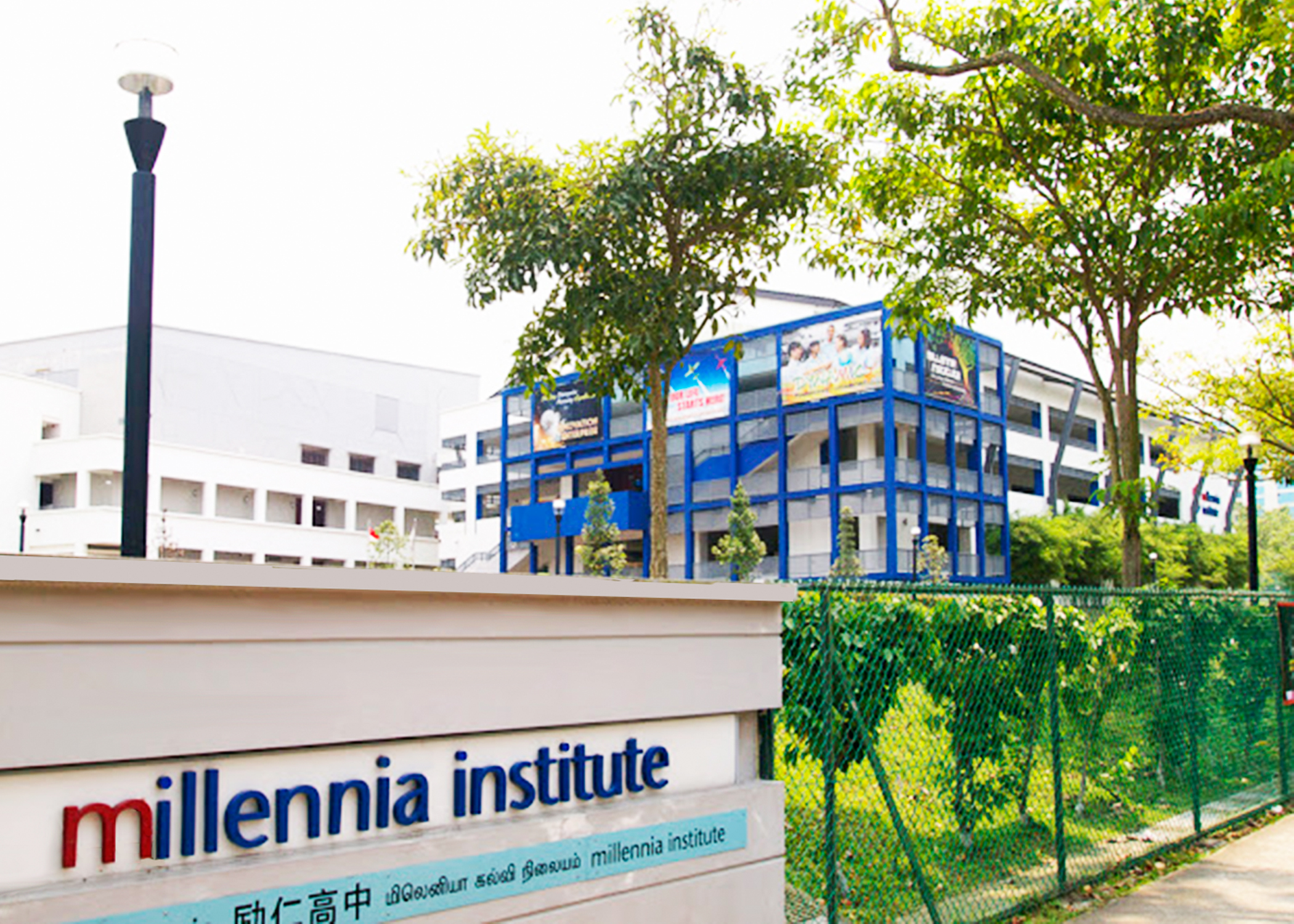 A photo of the gate of Millennia Institute in 2007.